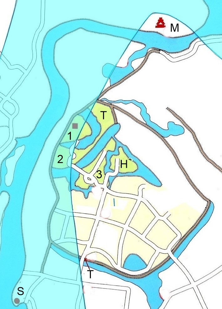 Layout of Sekiyado castle